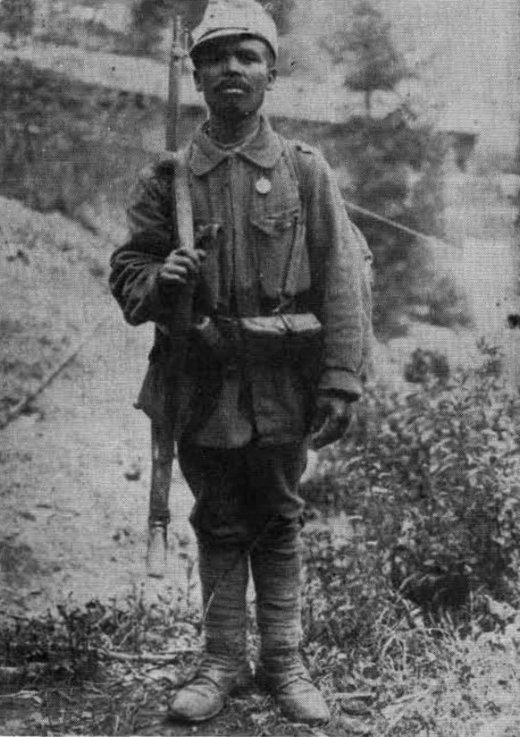 Oláh Gyuri Gypsy Soldier, 10th Soldier Regiment, First World War